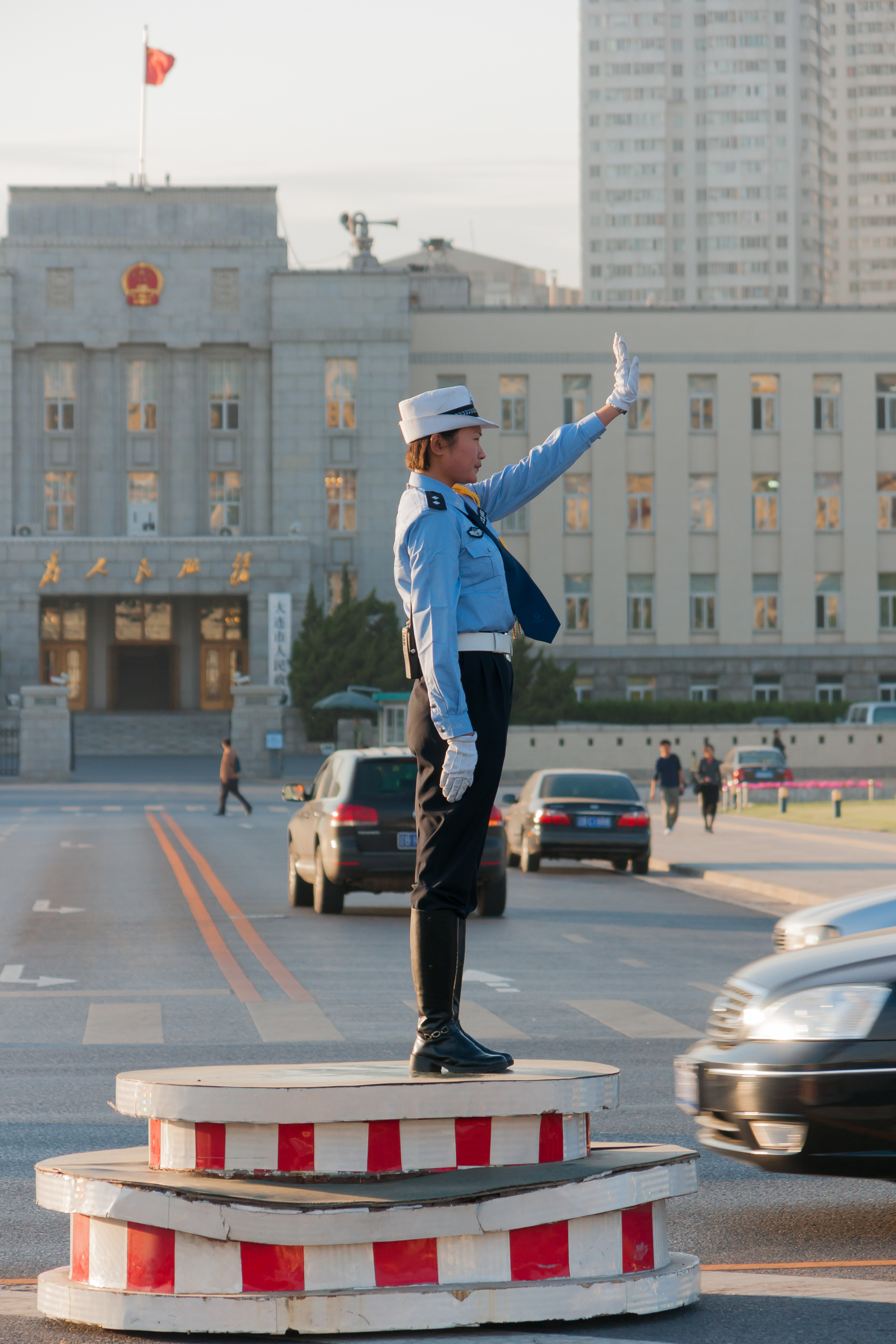 Dalian Liaoning China: Female police constable, regulation the traffic in front of Dalian Municipal Government